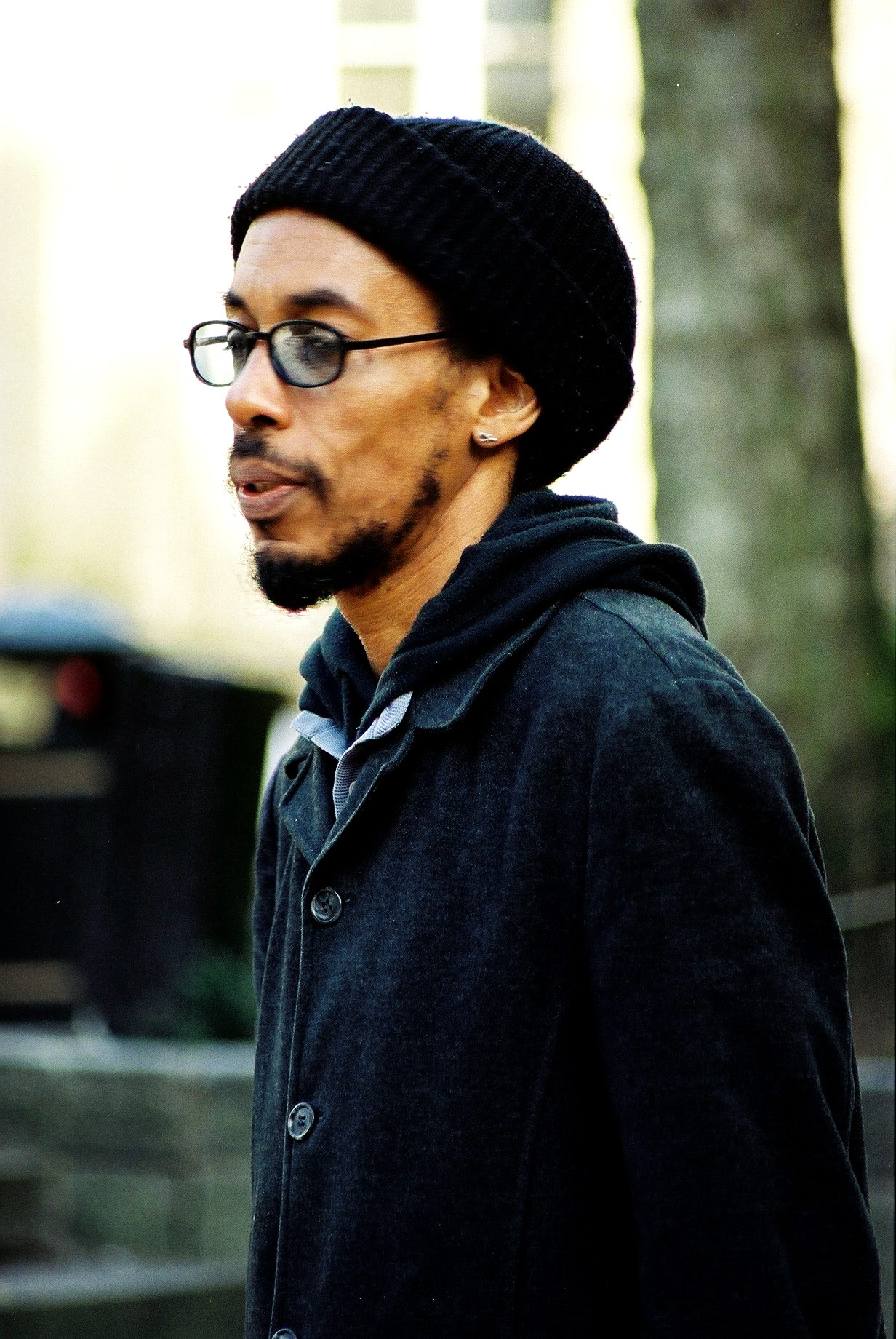 Roi Kwabena 2002.febr 020, birmingham